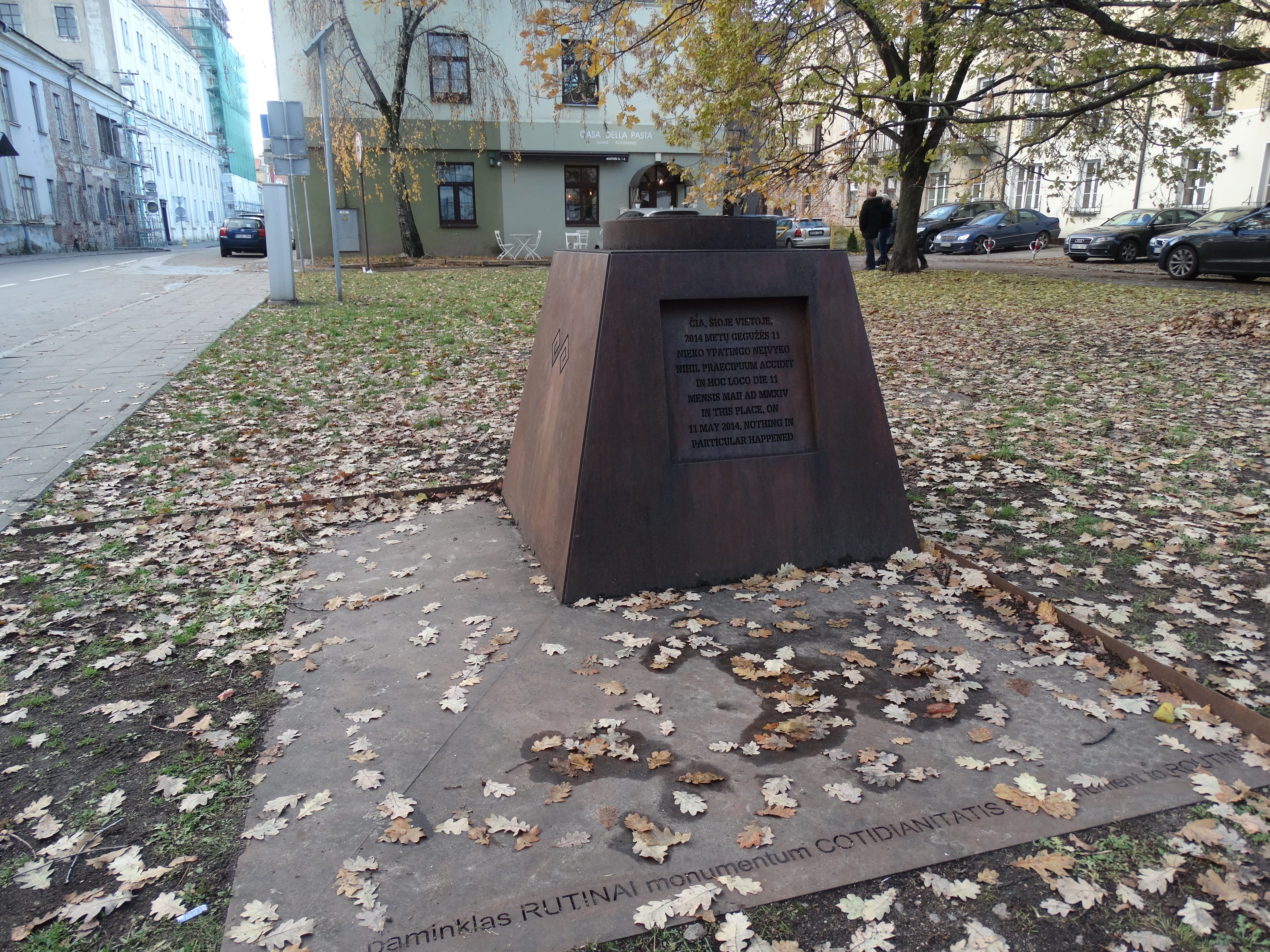 Old town, inscribed postament, Kaunas, Lithuania